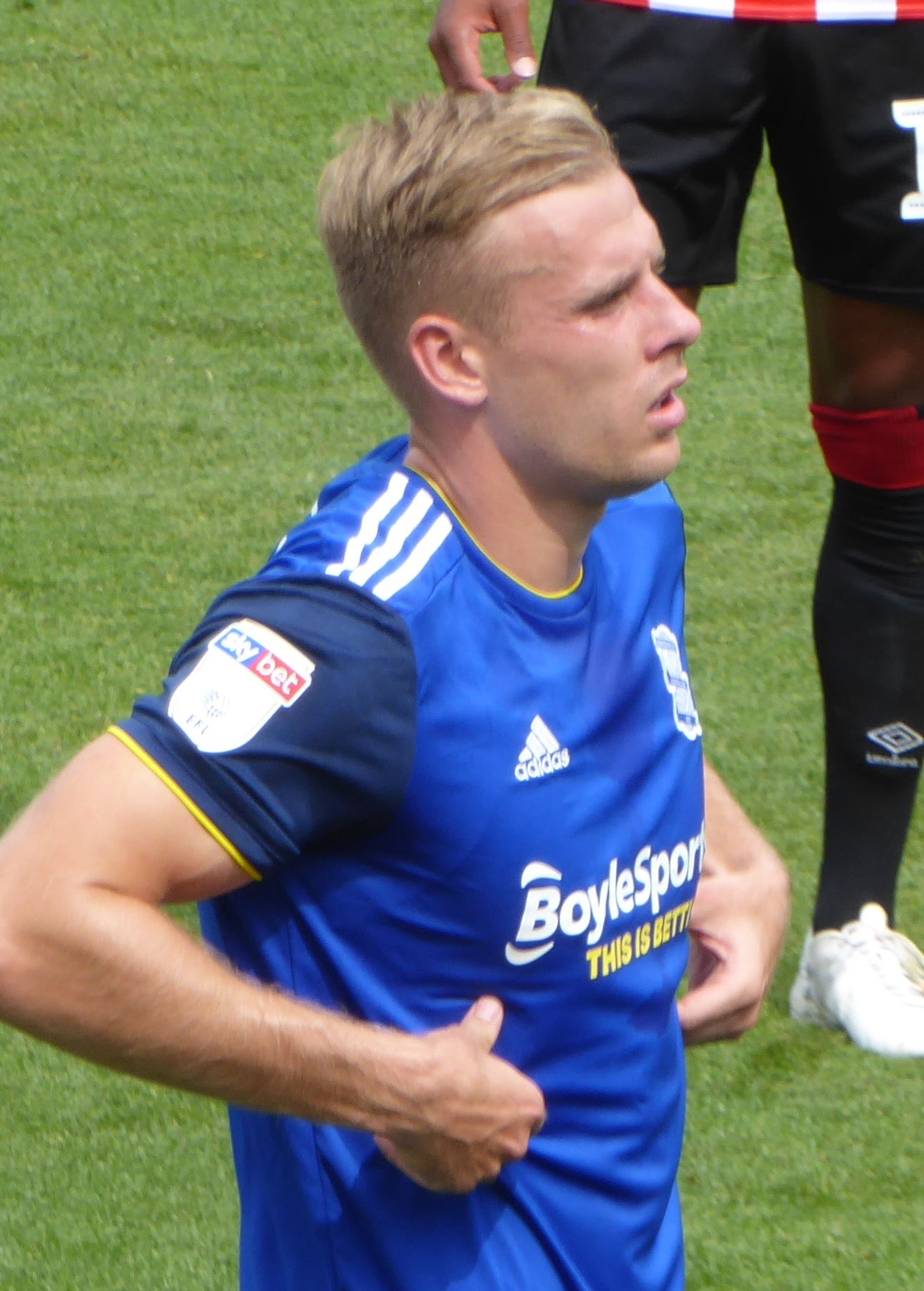 Marc Roberts playing for Birmingham City during the EFL Championship match against Brentford at Griffin Park on 3 August 2019